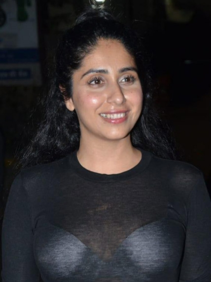 Neha Bhasin in 2019